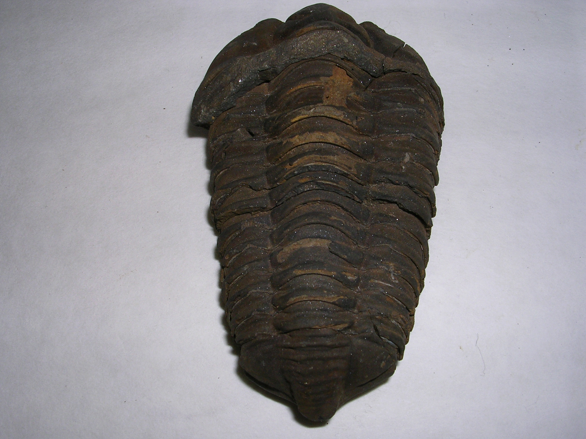 Colpocoryphe grandis fossil in a laboratory of practices of the Faculty of Sciences of the University of Corunna.